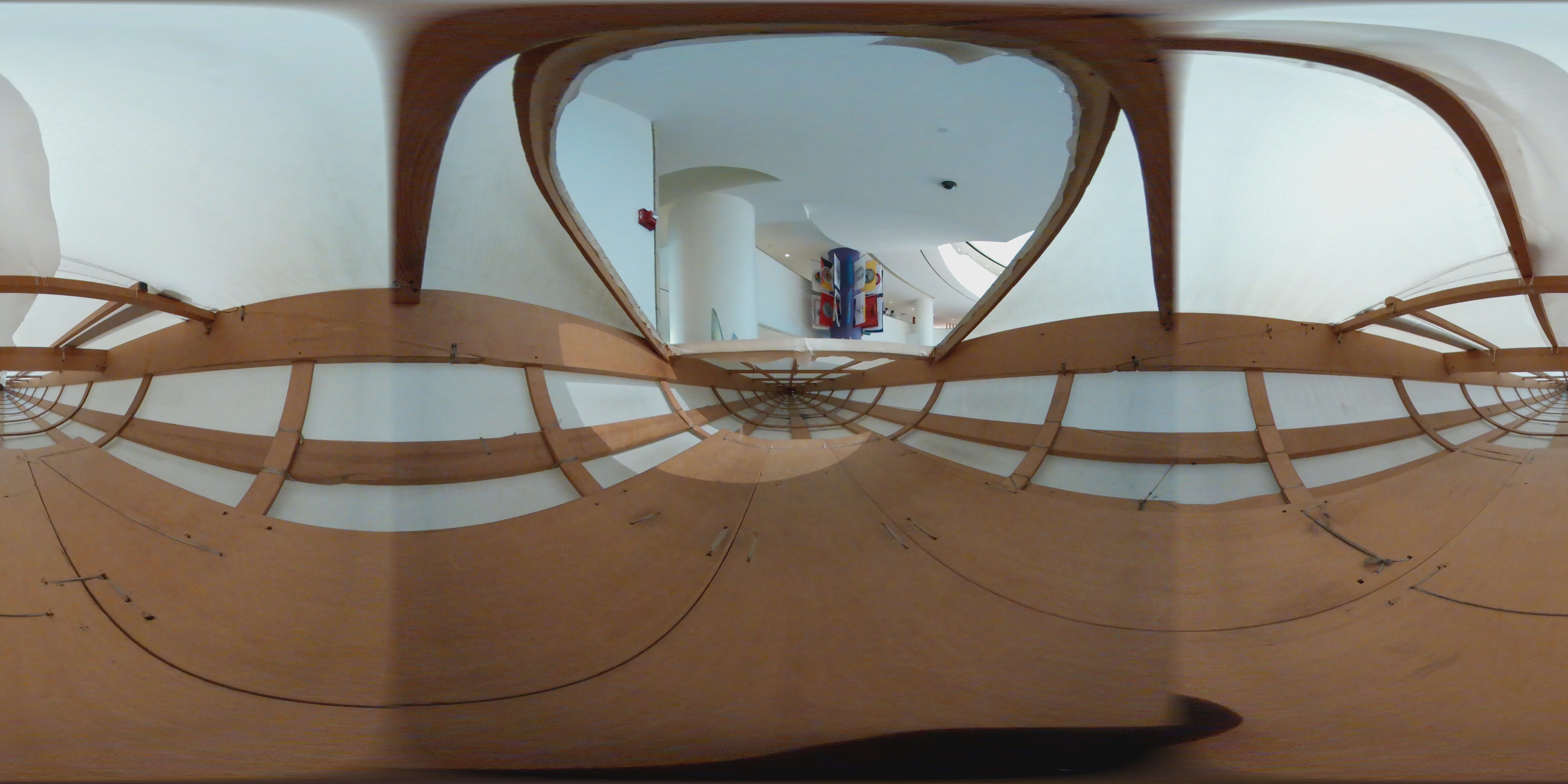 Interior 360 degree photosphere of a kayak at the Smithsonian National Museum of the American Indian. Made of yellow cedar frame and nylon covering.